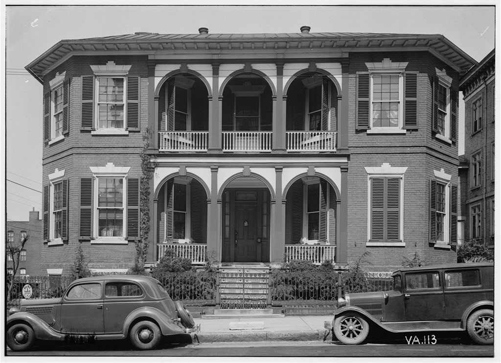 HABS photography of the Hancock-Wirt-Caskie House in Richmond, Virginia